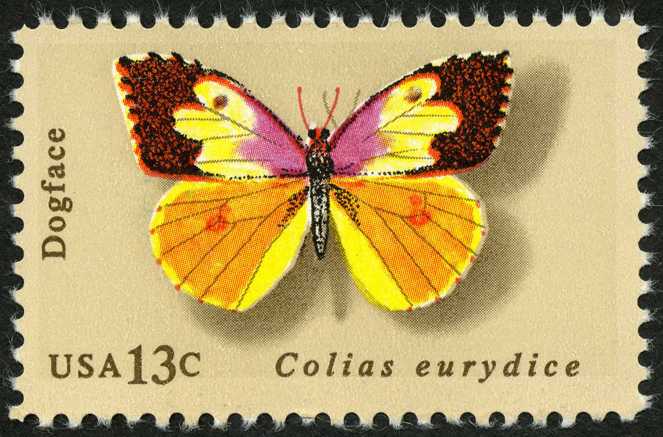 One of a series of US commemorative stamps featuring butterflies - Dogface - Colias eurydice - 13-cent 1977 issue U.S. stamp.